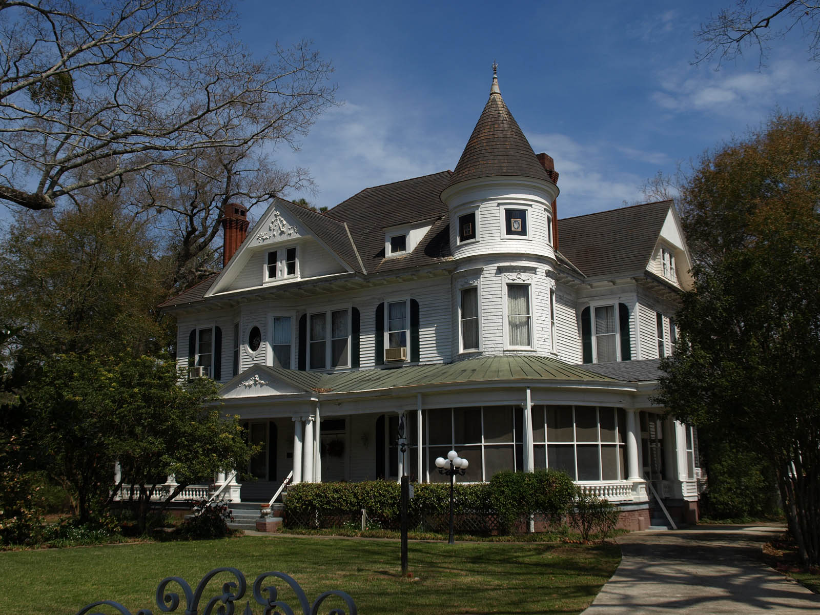 The Bell House in Prattville, Alabama, listed on the National Register of Historic Places.